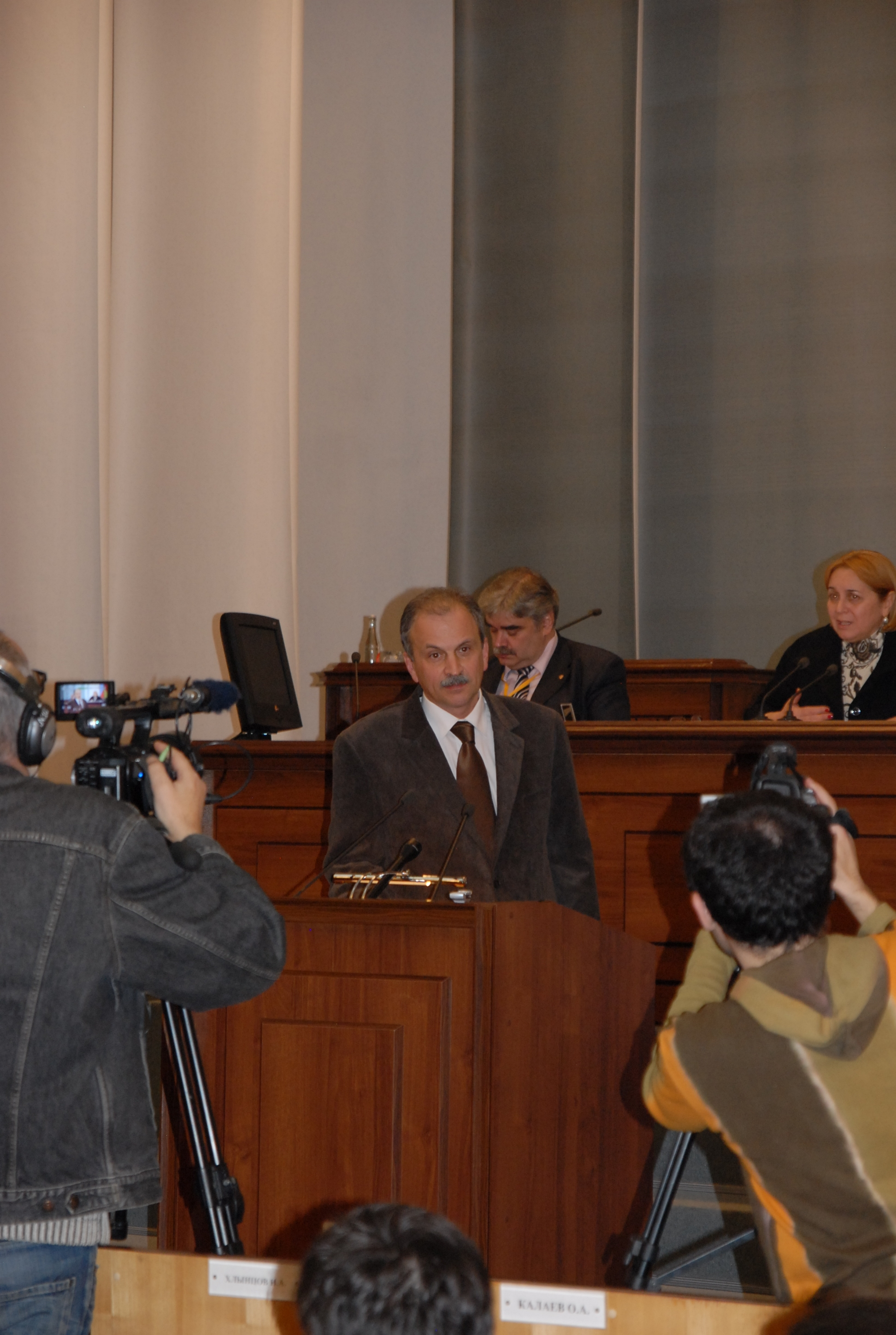 Ruslan Bzarov speech